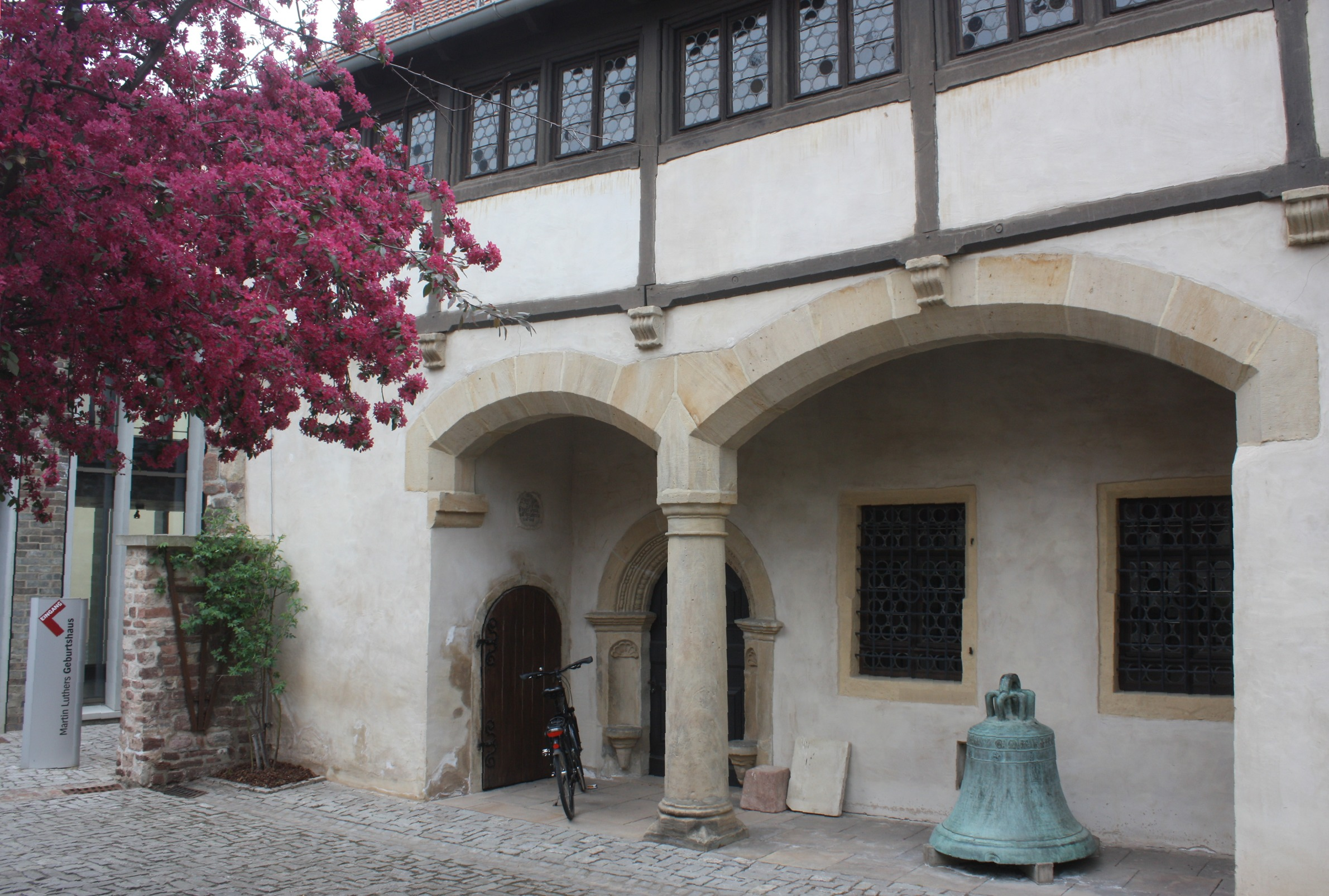 Lutherstadt Eisleben, Luther´s birthplace